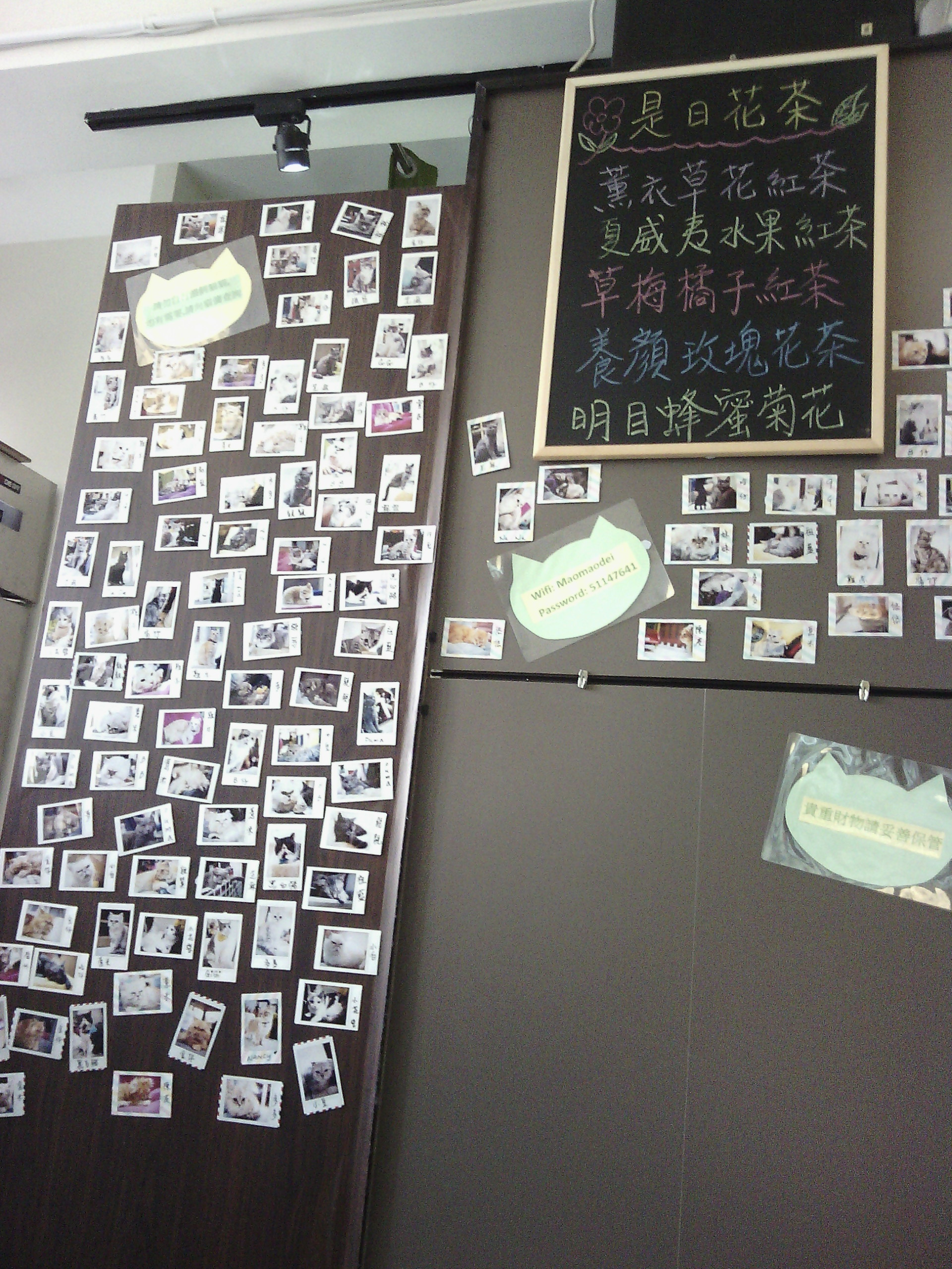 interior of upstairs cafes in hong kong